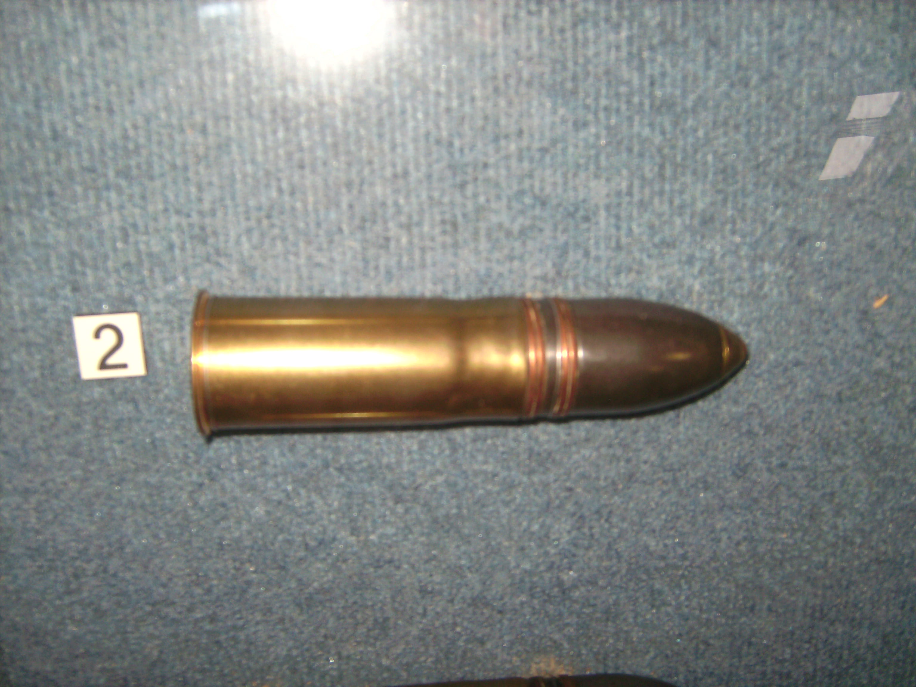 Ammo of the 3,7 cm gun of the Renault FT-17